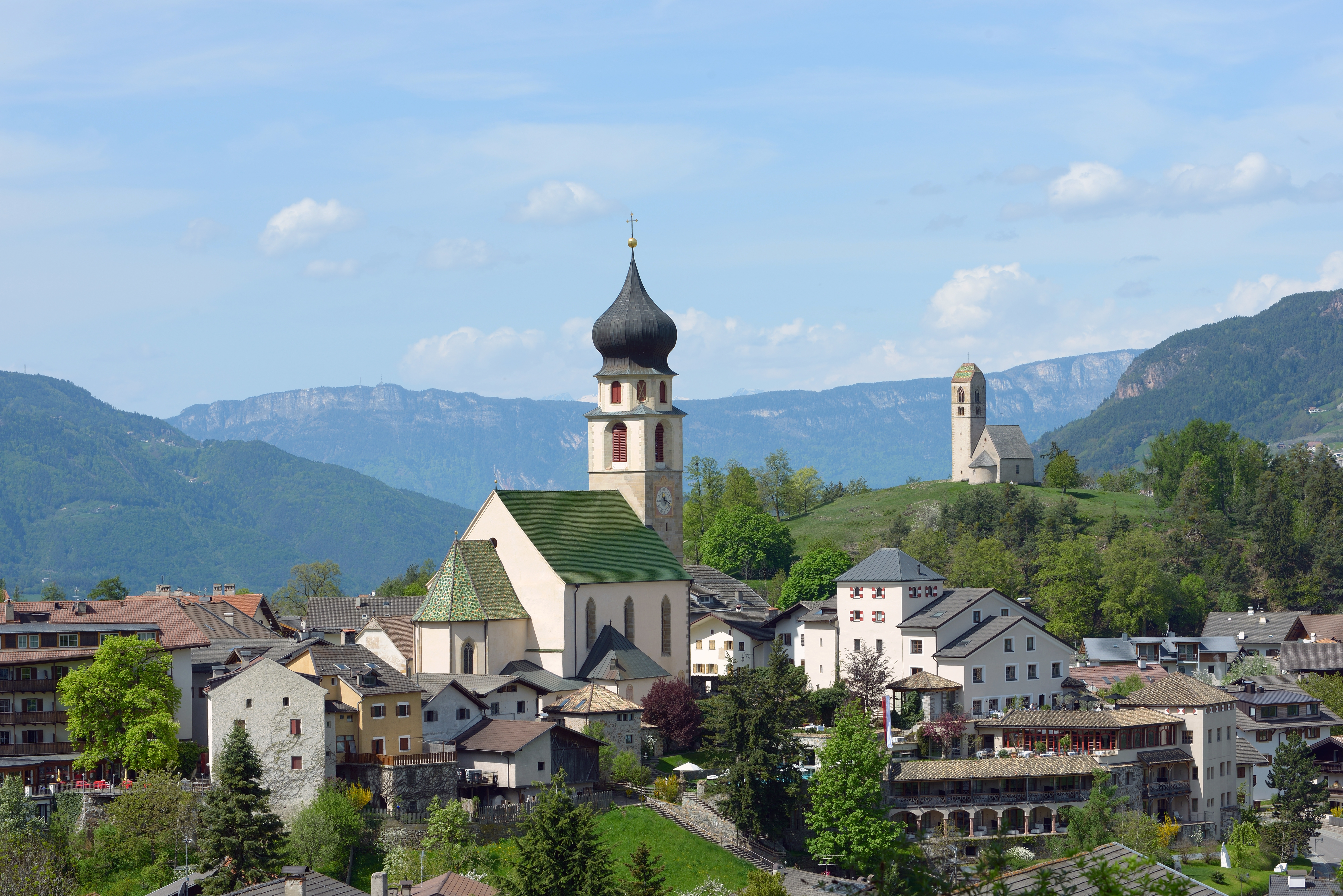 View of the historic centre of Völs am Schlern